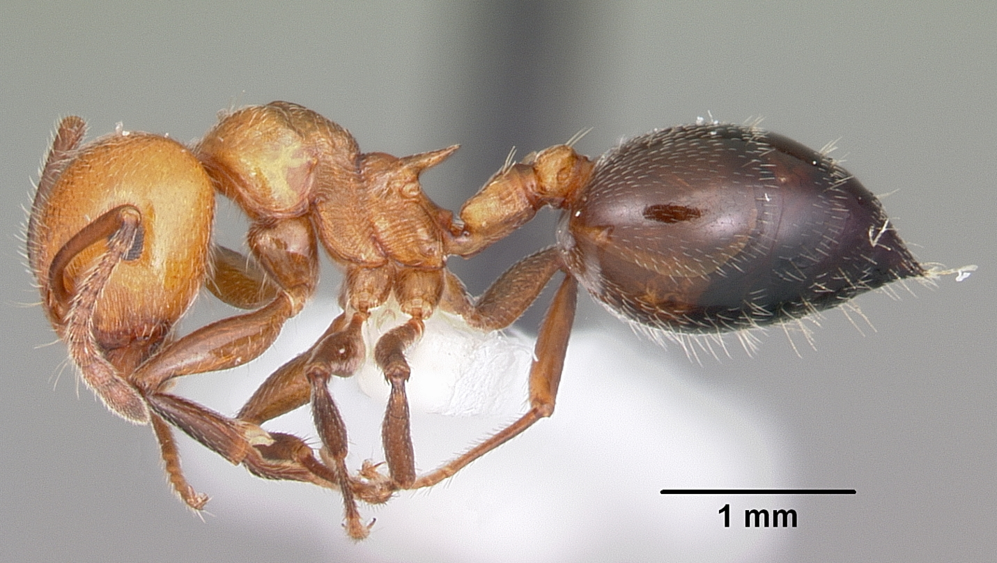 Profile view of ant Crematogaster laeviuscula specimen casent0104828.